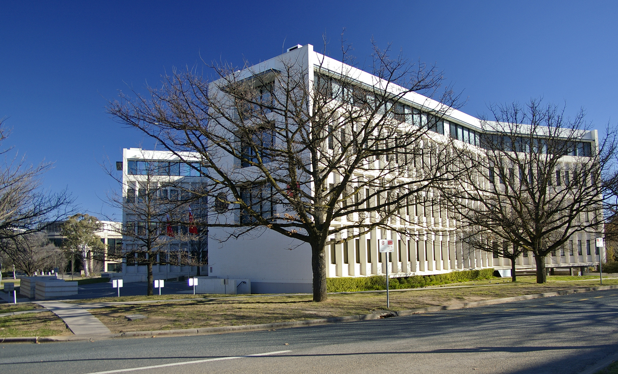 Engineering House is the national office for Engineers Australia located in the Canberra suburb of Barton, Australian Capital Territory